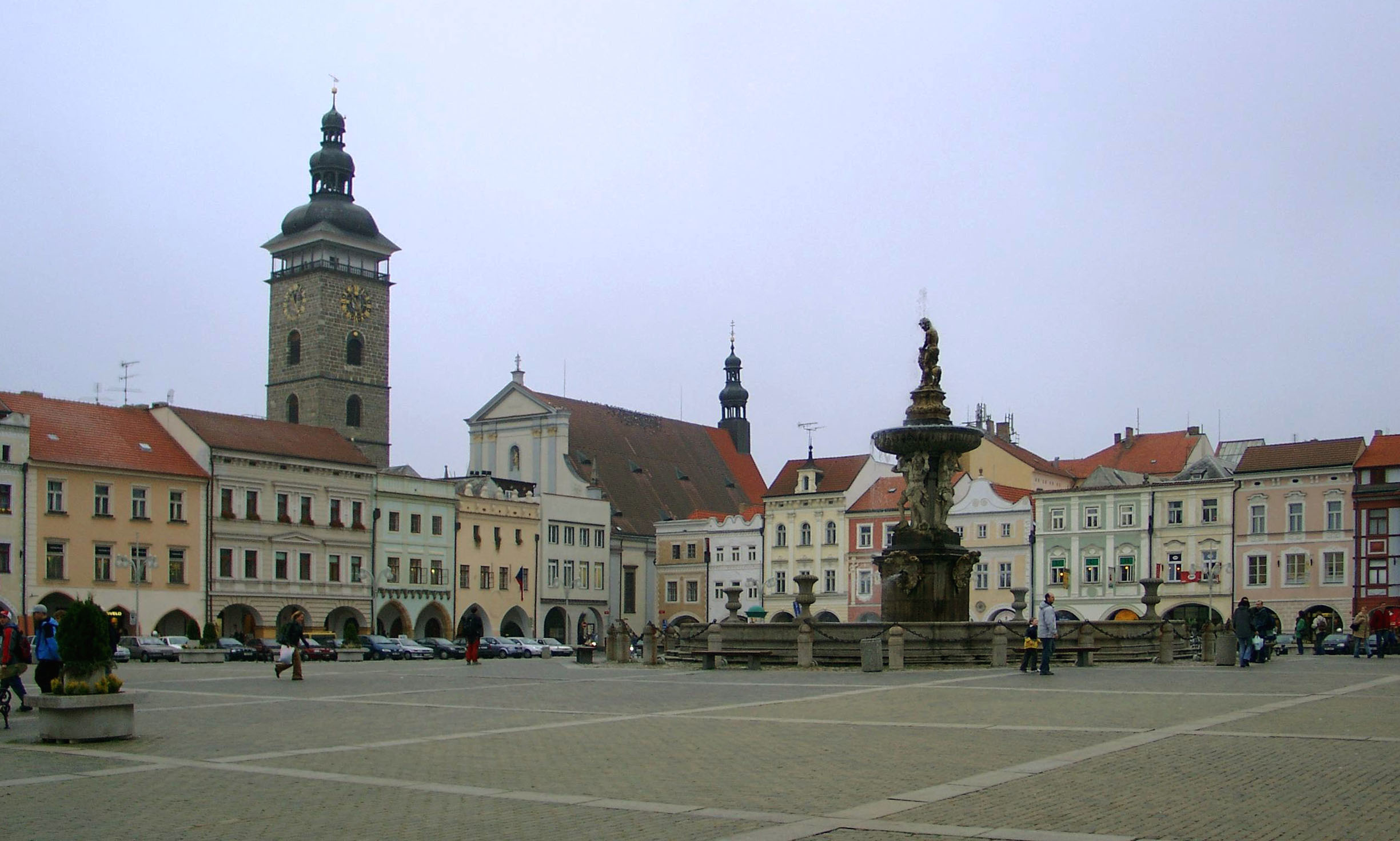 České Budějovice - look across markplatz (Přemysl Otakar II. Square) to the St. Nicolas cathedral and Black Tower. In the centre Samson's fountain.